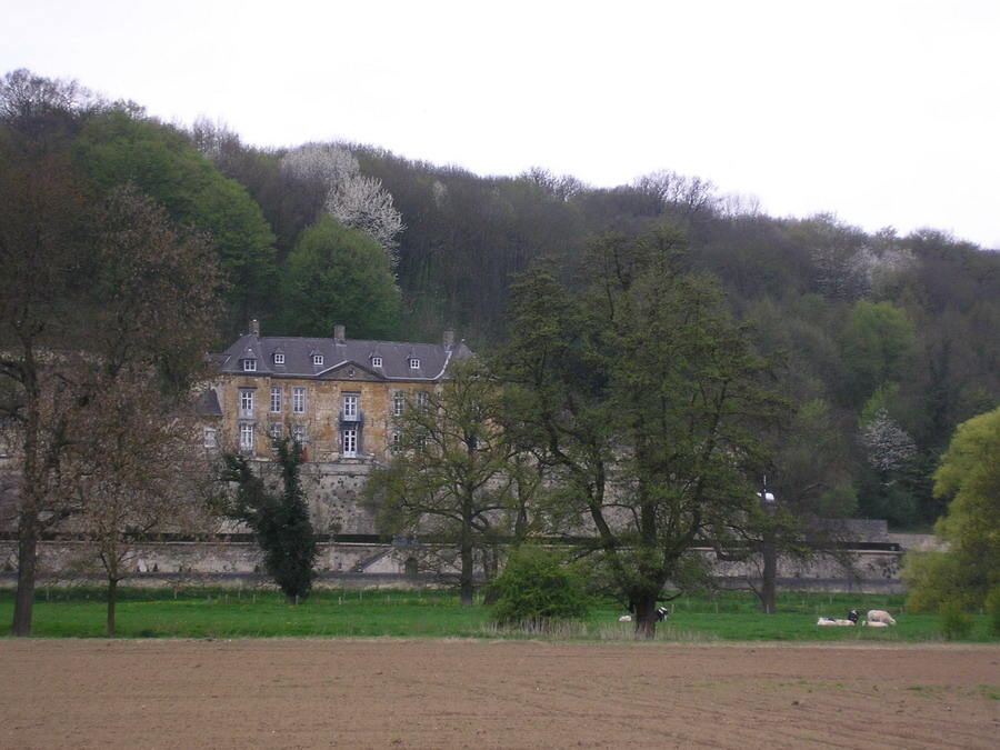 Maastricht, the Netherlands. View of Castle Neercanne in the Jeker valley.